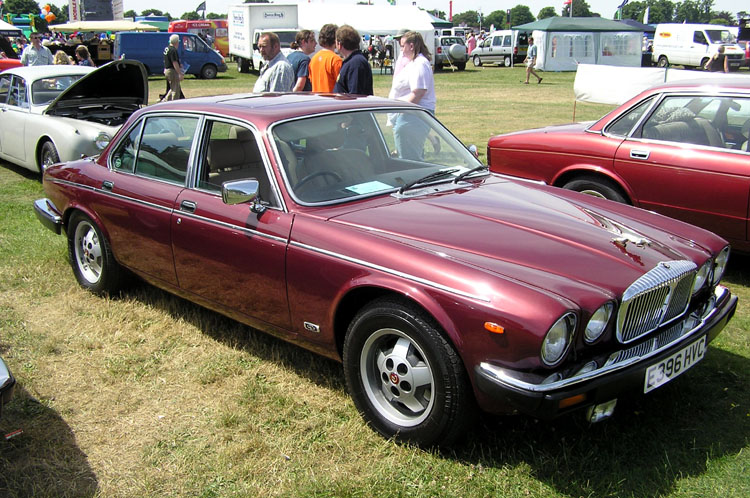 1988 Daimler D Six at Bristol Car Show, The Downs, Bristol, England.